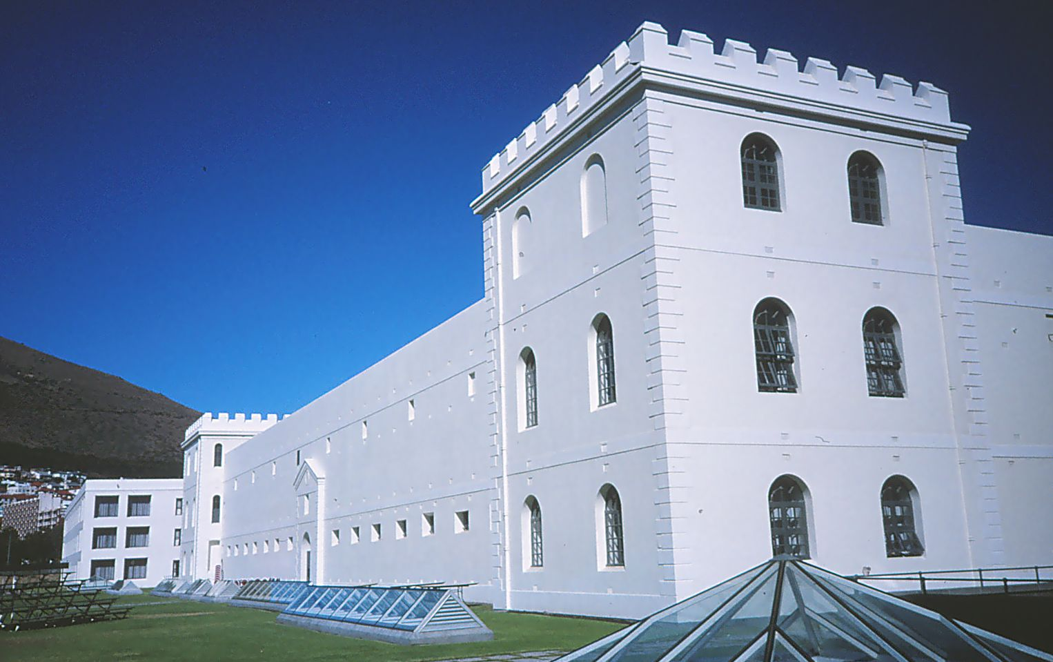 Breakwater Lodge with the two towers.